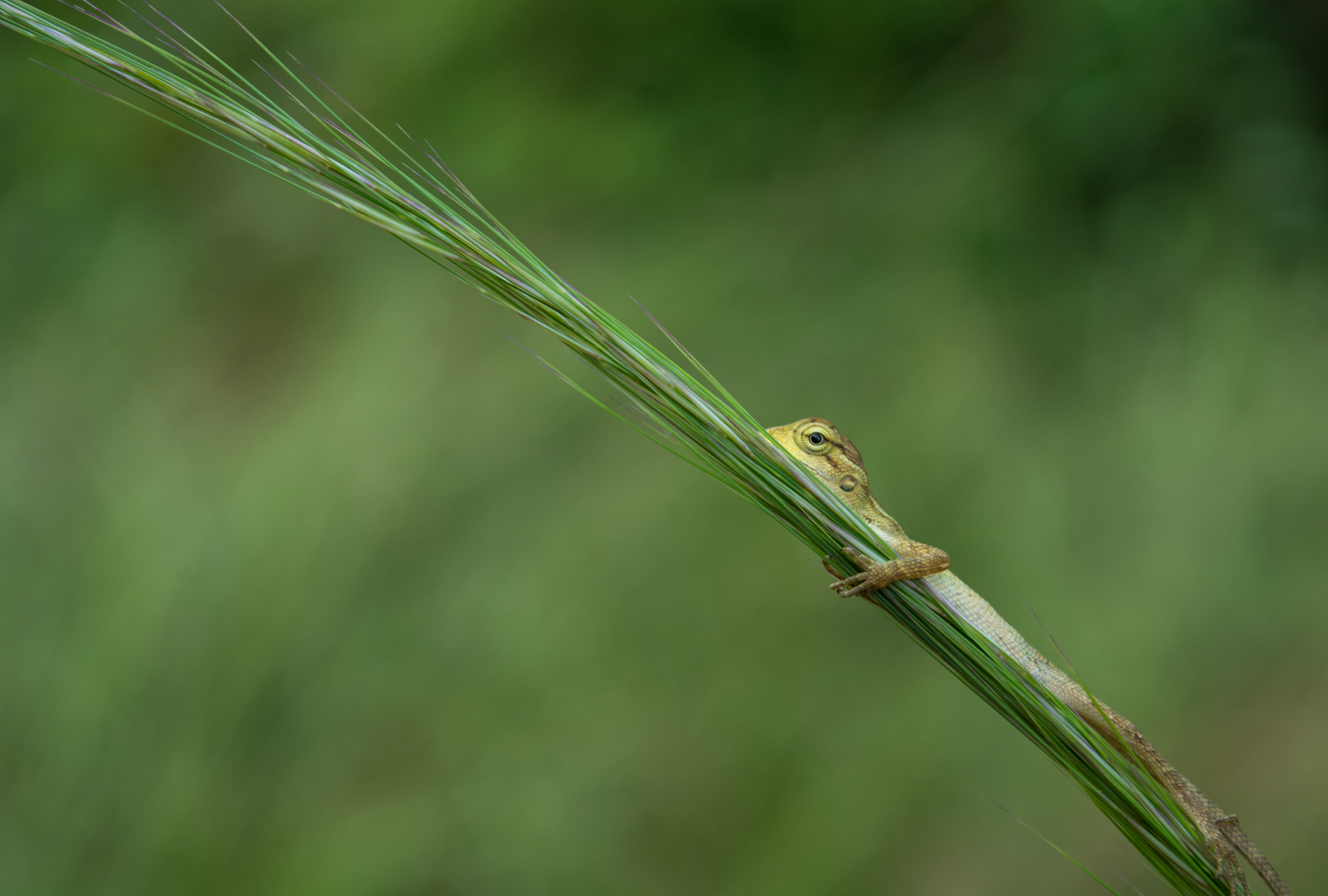 A Calotes basking on a grass, spotted in Kambalakonda wildlife sanctuary.